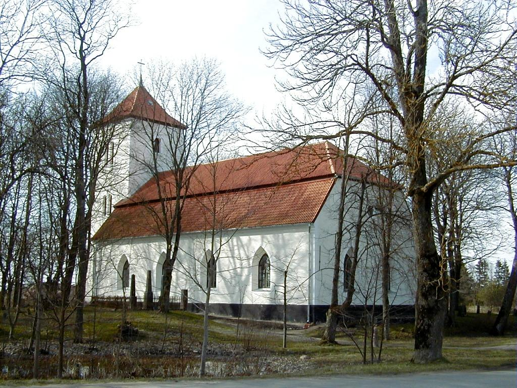 Piltene Evangelical Lutheran Church